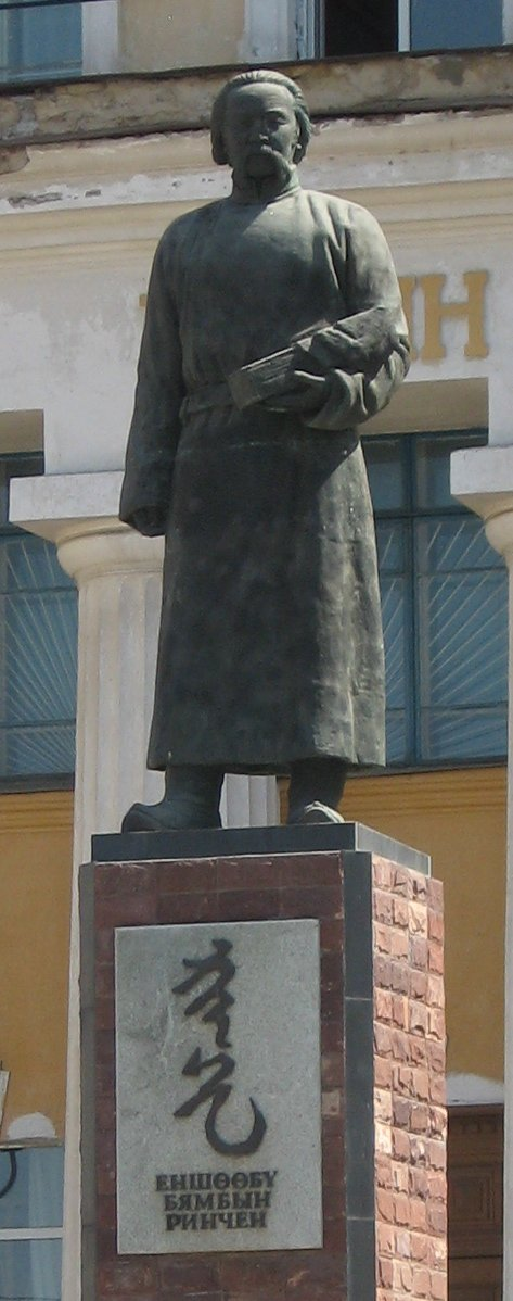 Monument for B. Rinchen, in front of the State Library, Ulaanbaatar, Mongolia